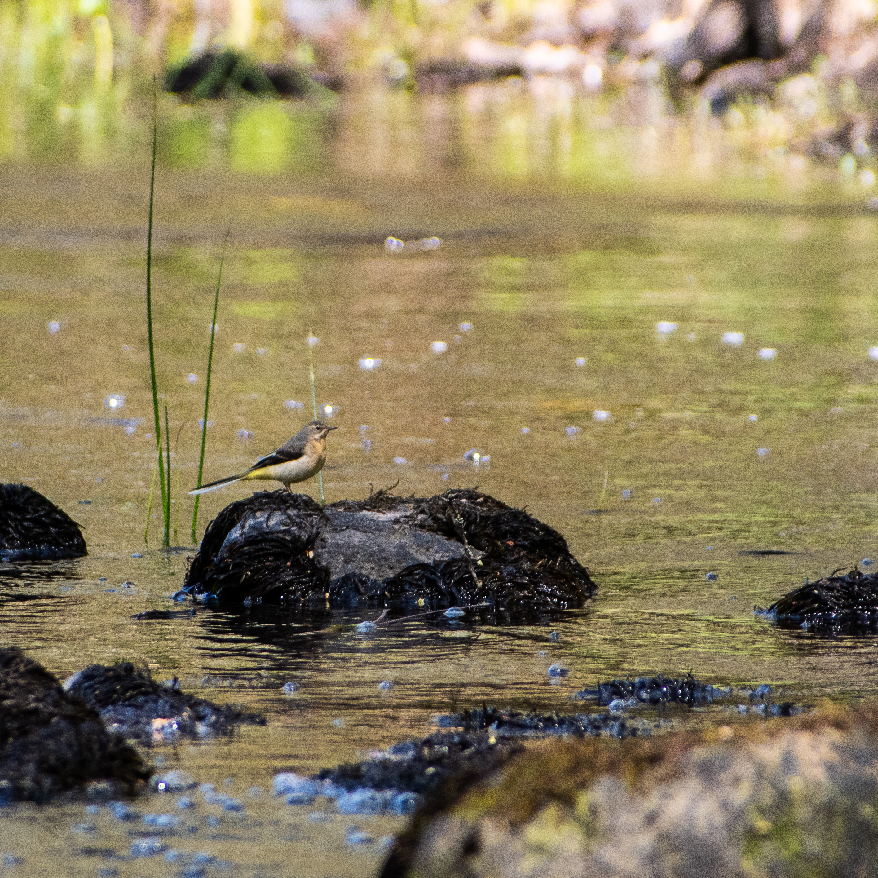 Grey wagtail in Manketorpsströmmen, Ölvedal